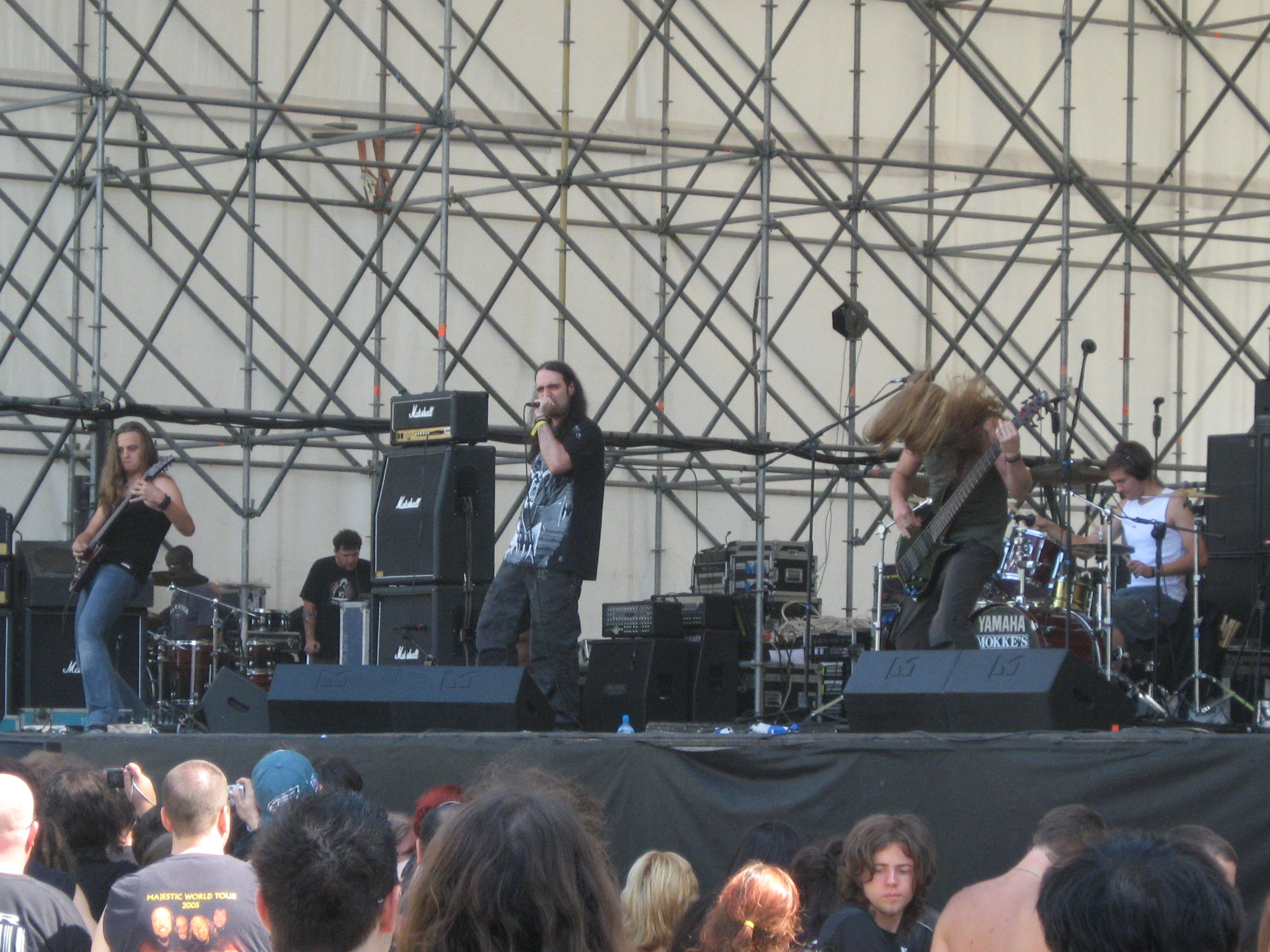 Biomechanical at Rockin' field festival in Milan, Italy (26 July 2008)